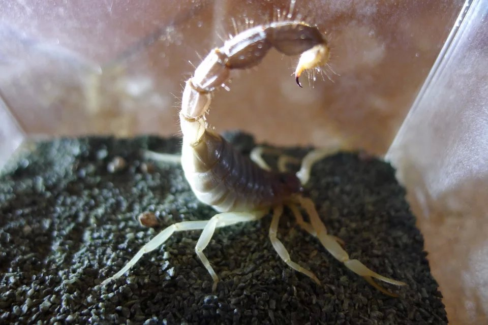 Parabuthus schlechteri